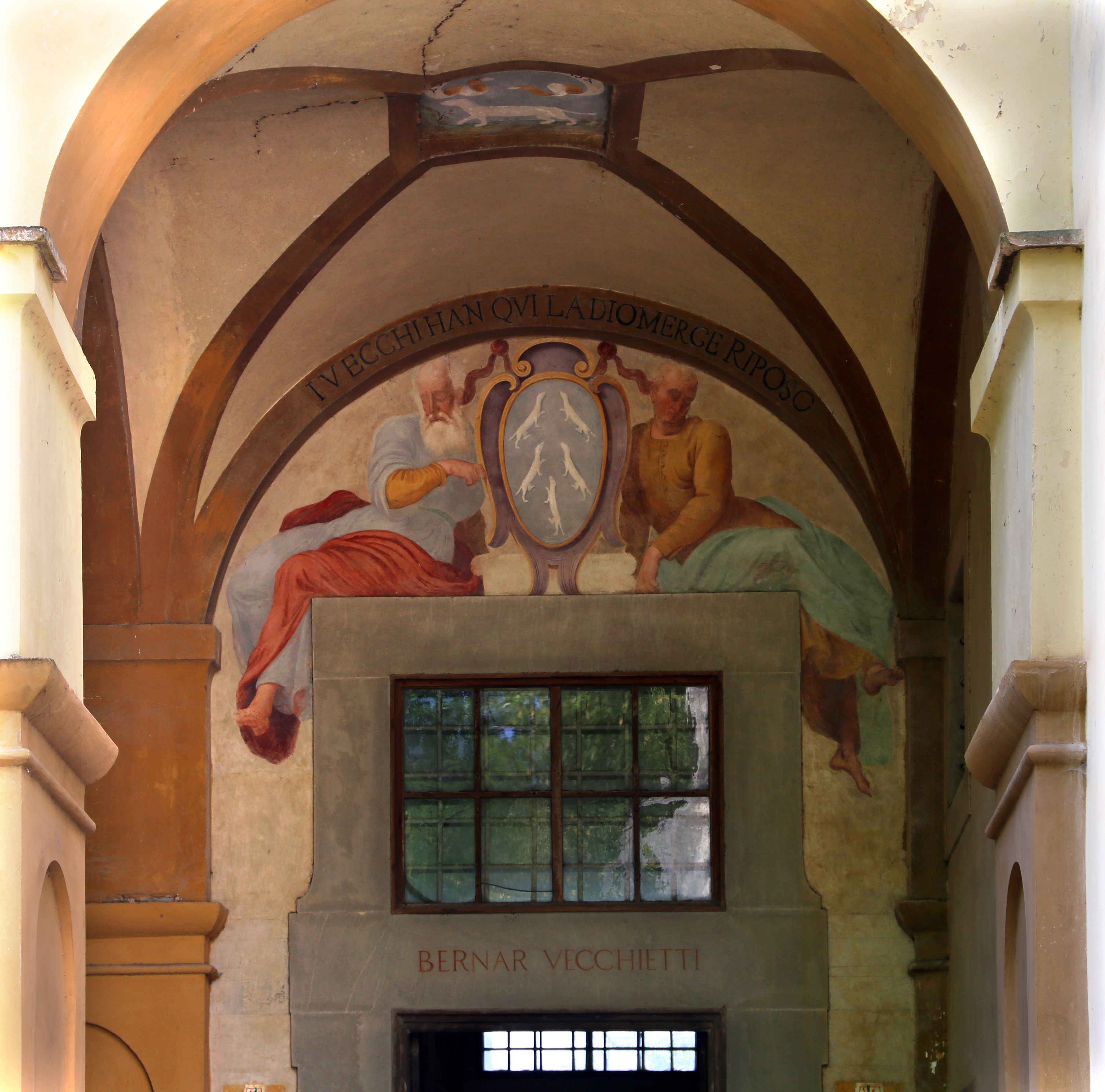 Villa Il Riposo dei Vecchietti